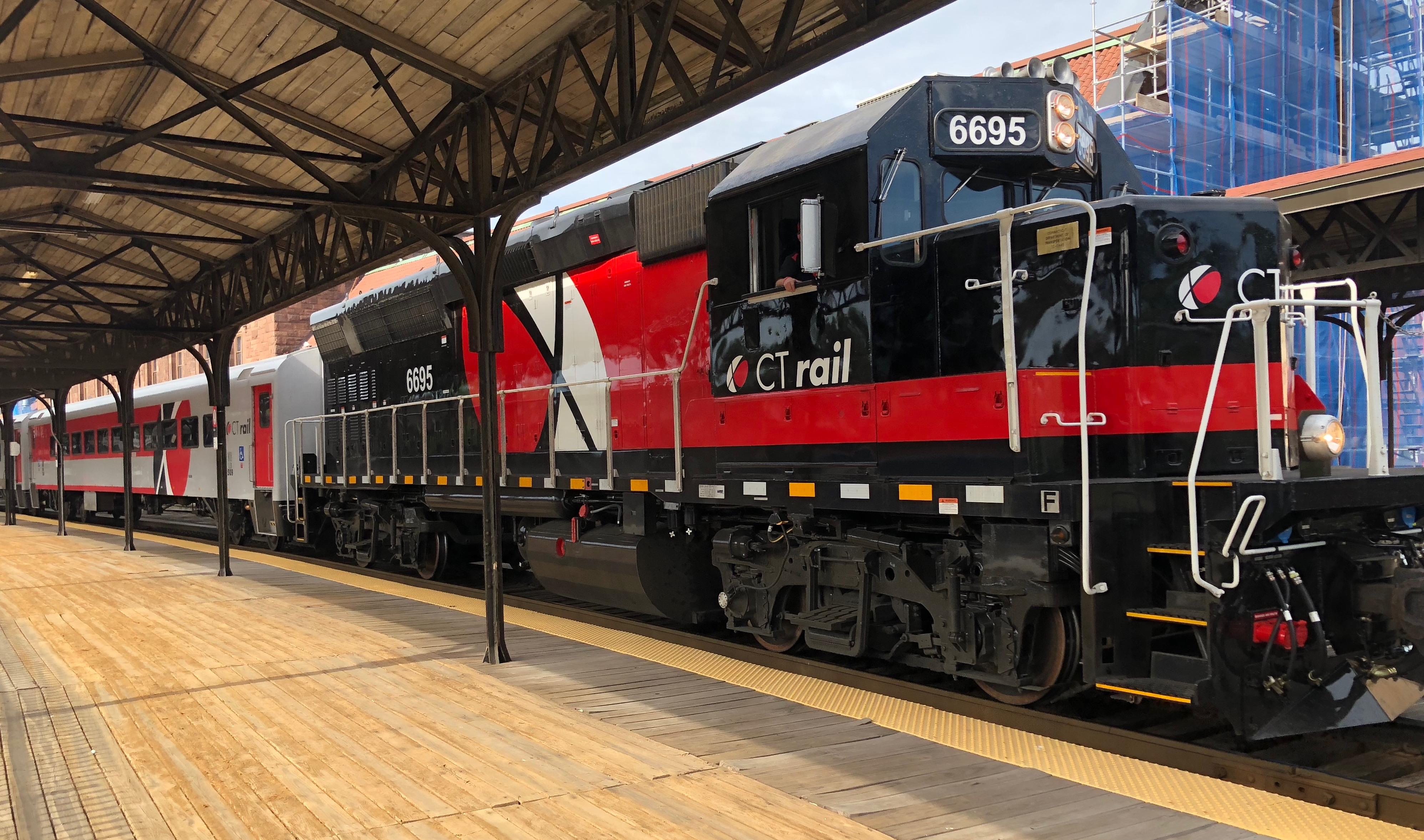 Hartford Line train heading southbound through Hartford Union Station on opening day, June 16, 2018.